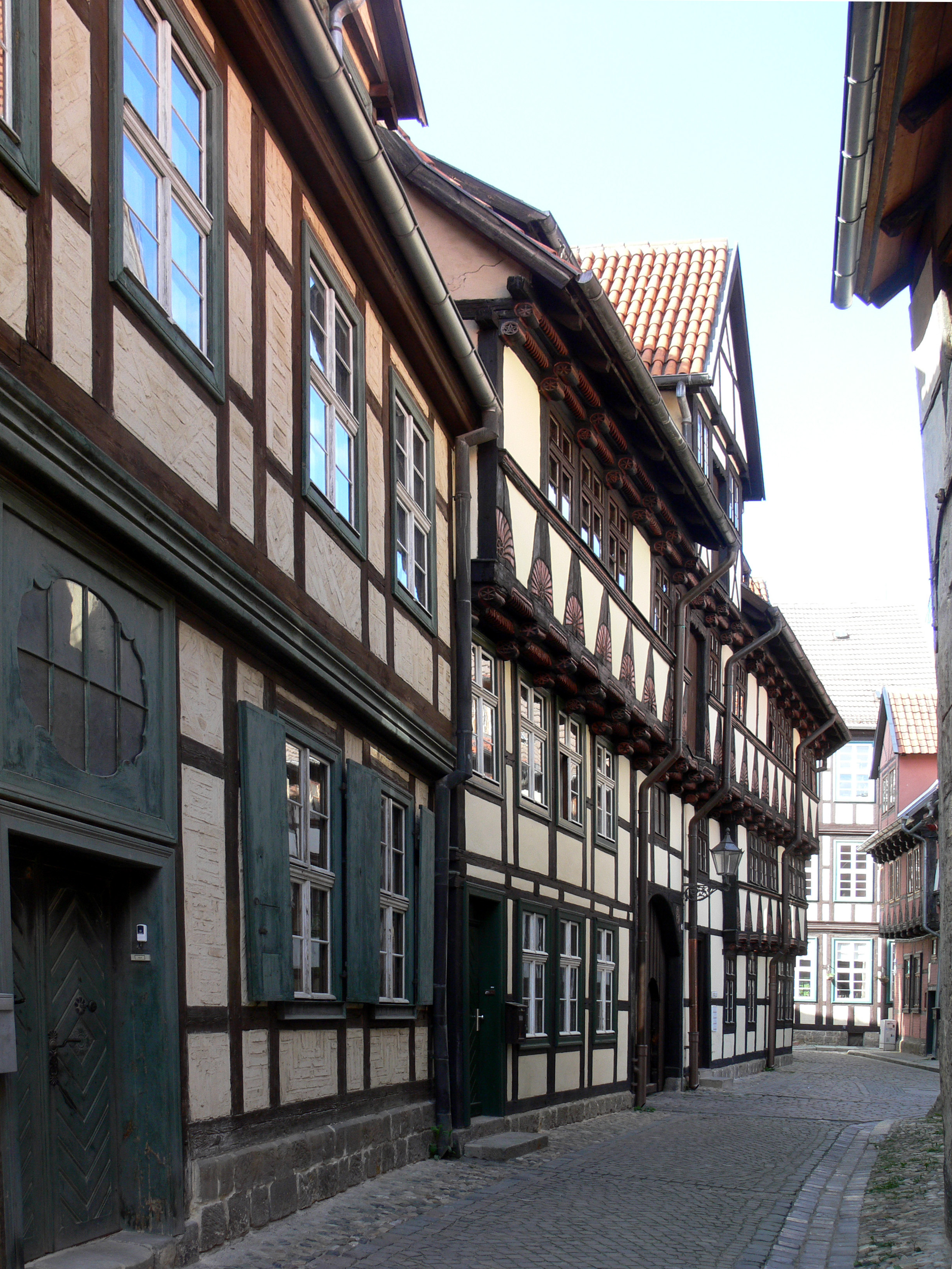 street Hölle (translated: Hell) at Quedlinburg / Germany